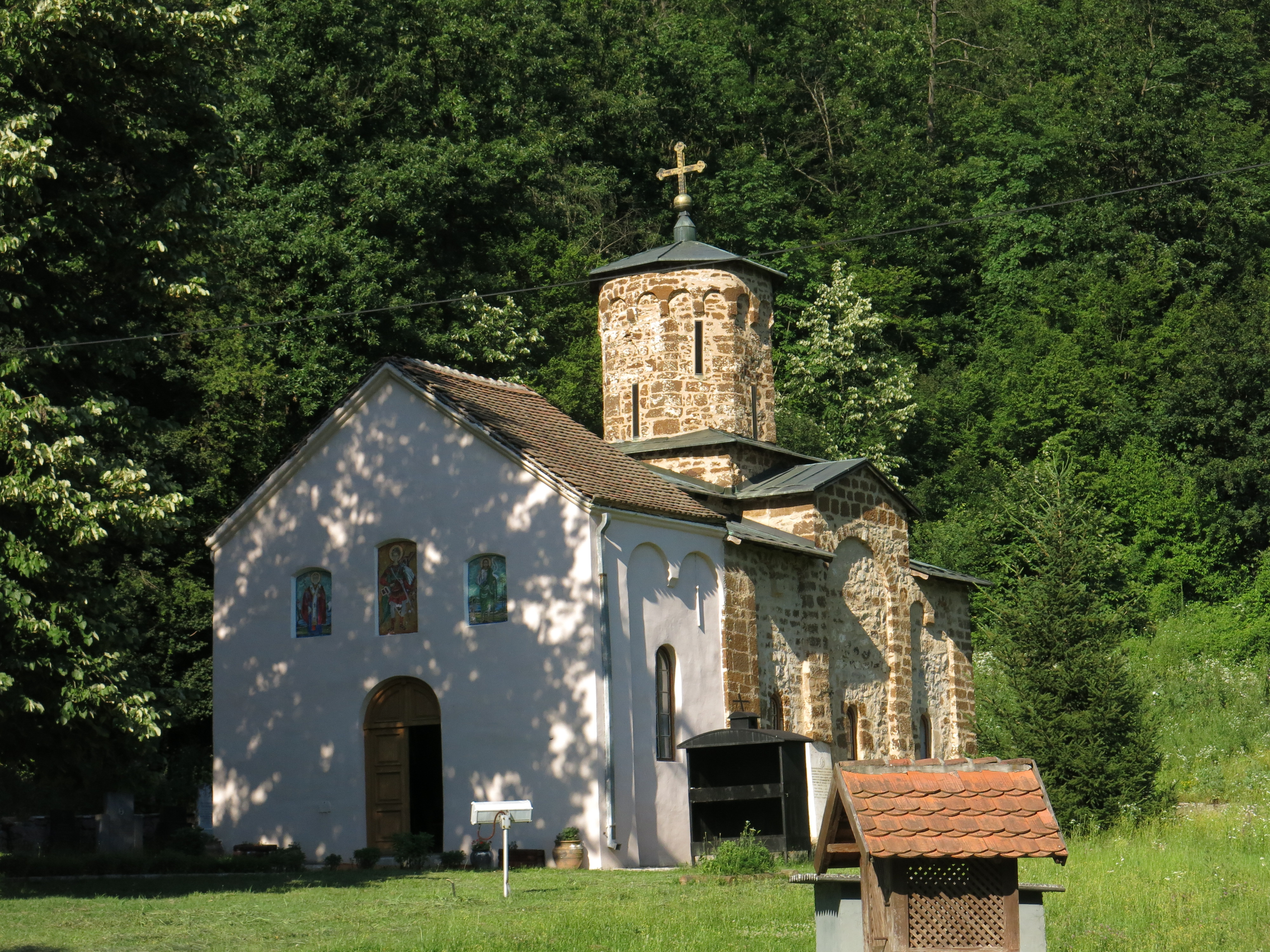 Markova Crkva, Church of Saint Demetrius